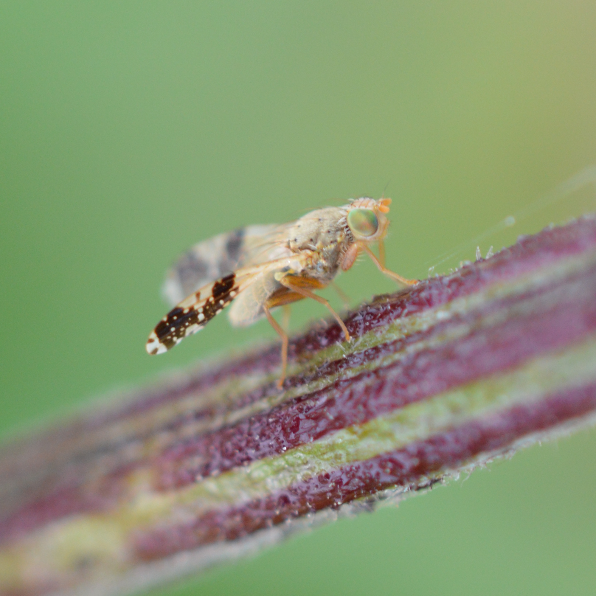 Tephritis bardanae, photographed on Arctium in Uppsala, Sweden